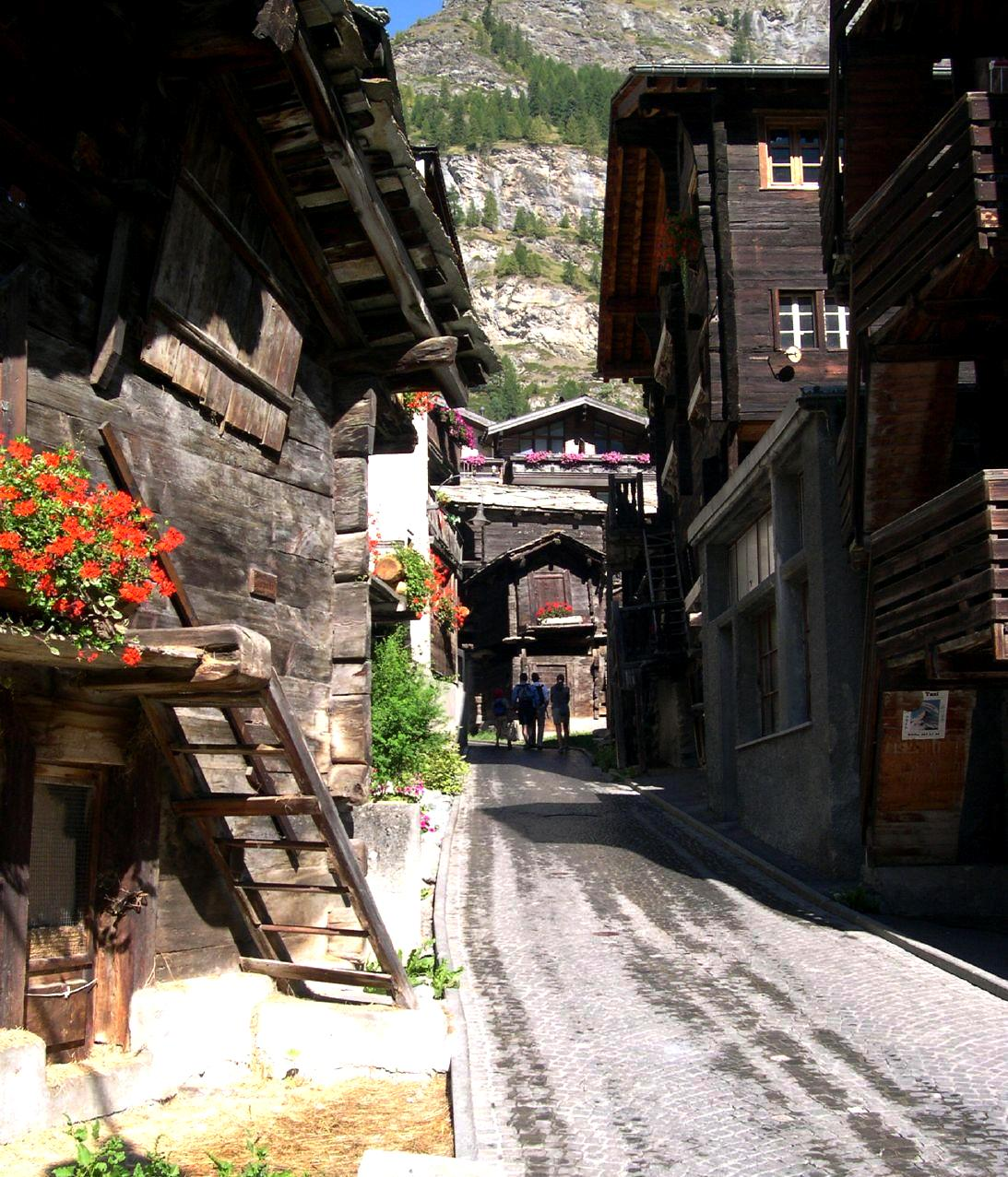 Old town in Zermatt